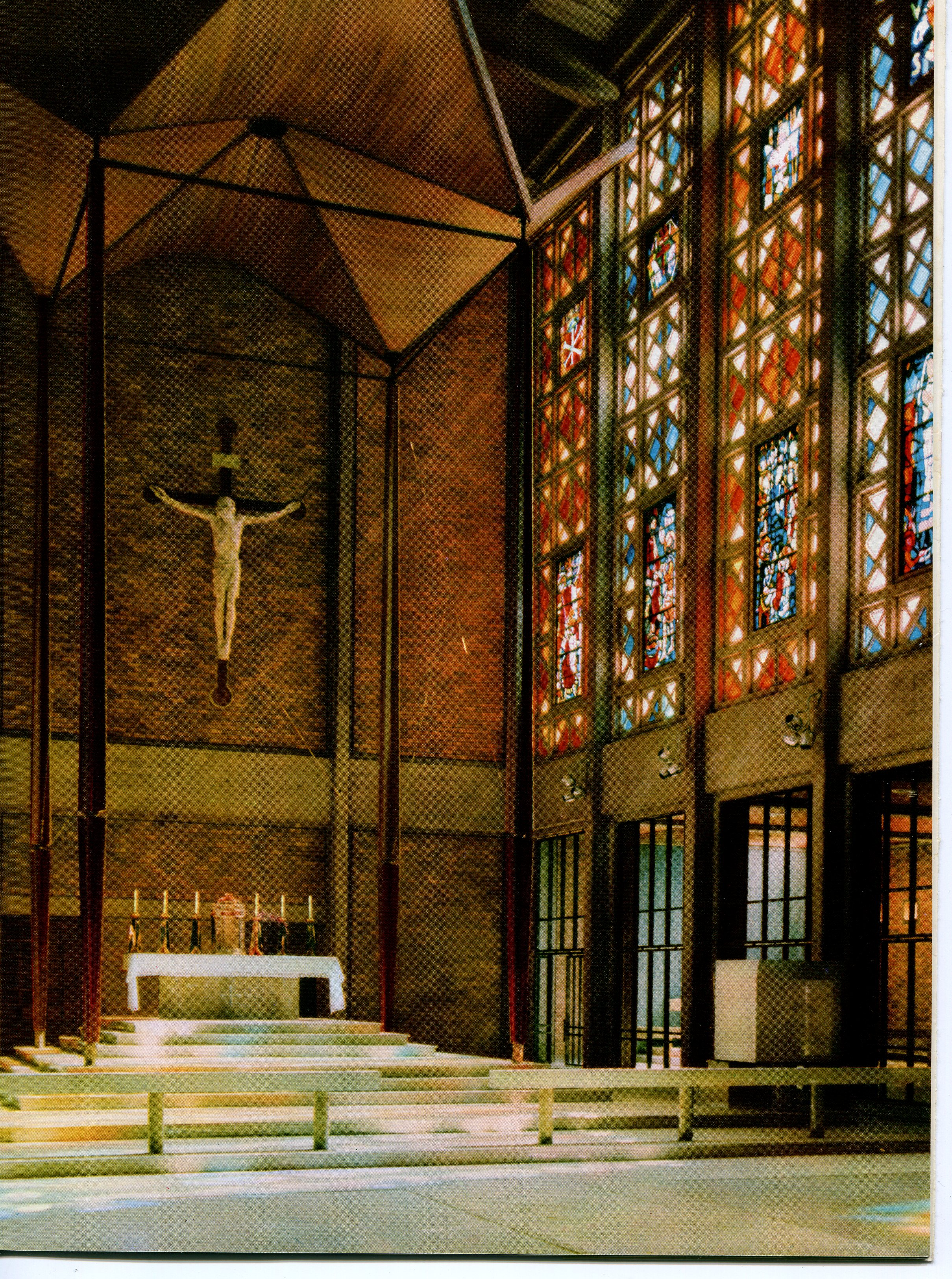 Cathedral of Christ The King in the city of Johannesburg. These are works from the Johannesburg Heritage Foundation released to be used in the Joburgpedia which I'm a Wikipedian in Residence.